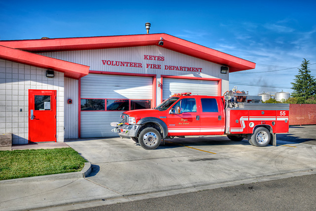 KEY G-55